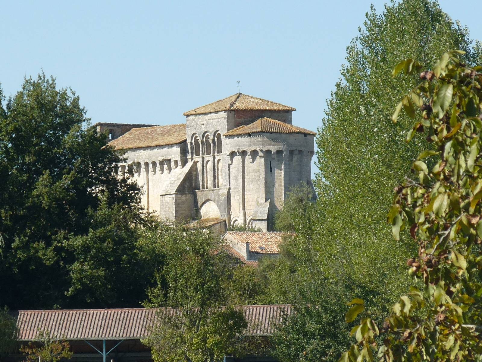 fortified church of Charras, Charente, SW France